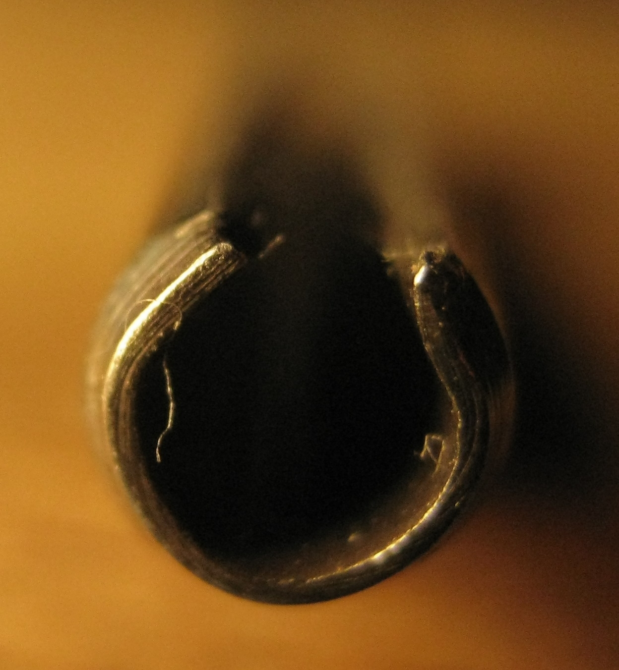 Klemmhülse Profil